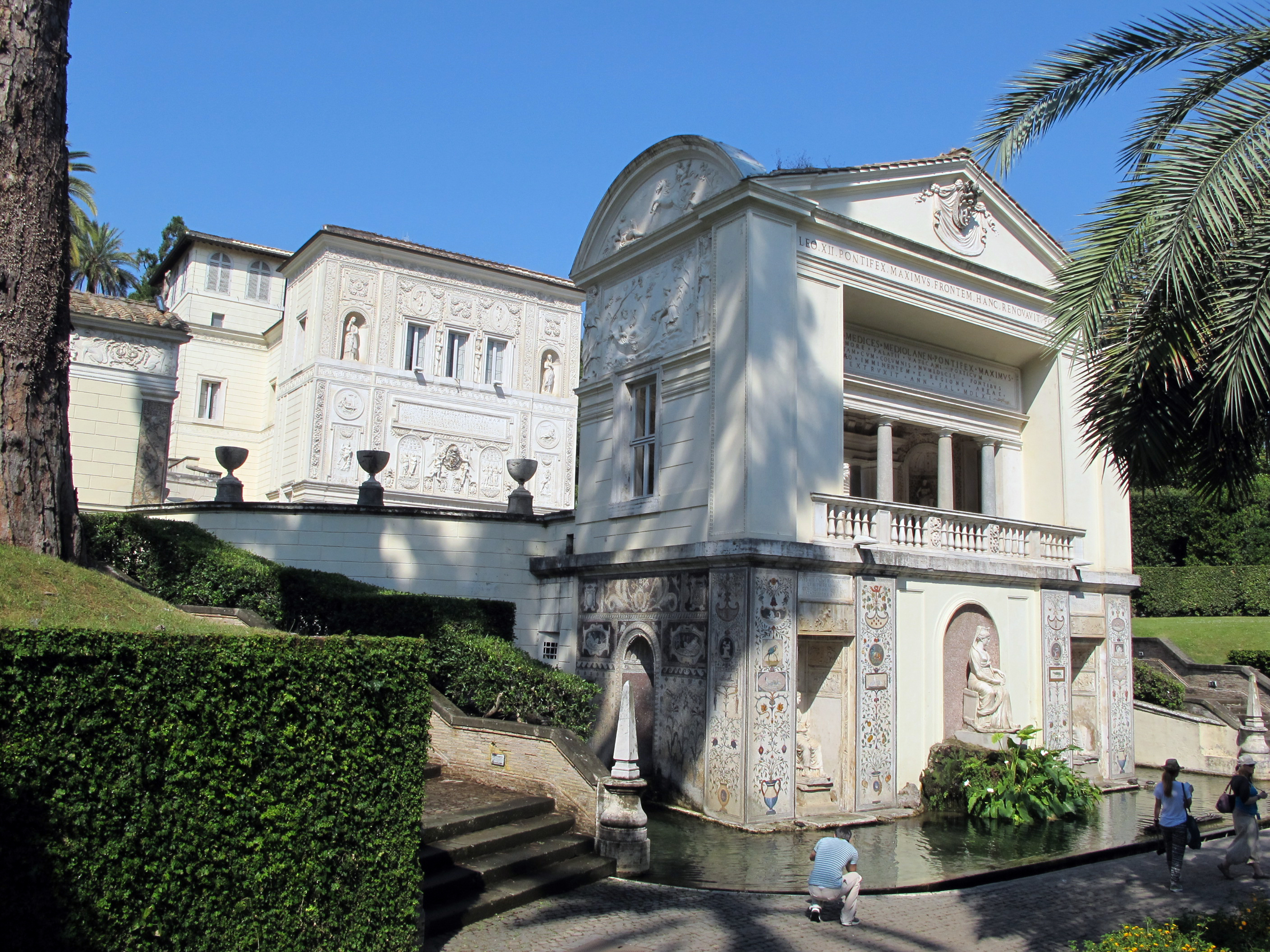 Pontifical Academy of Sciences